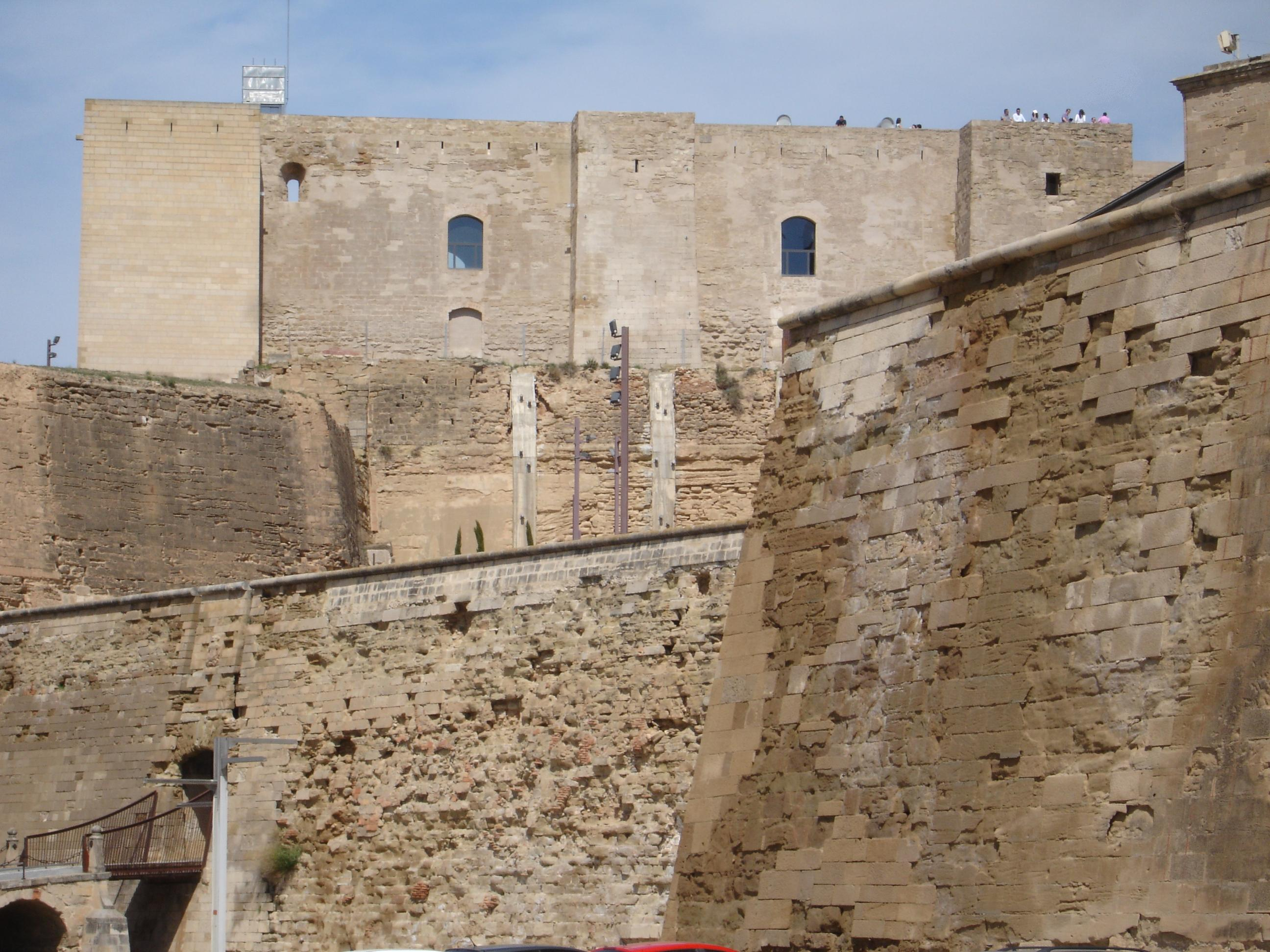 Moorish Castle "La Suda" in Lleida (Spain)